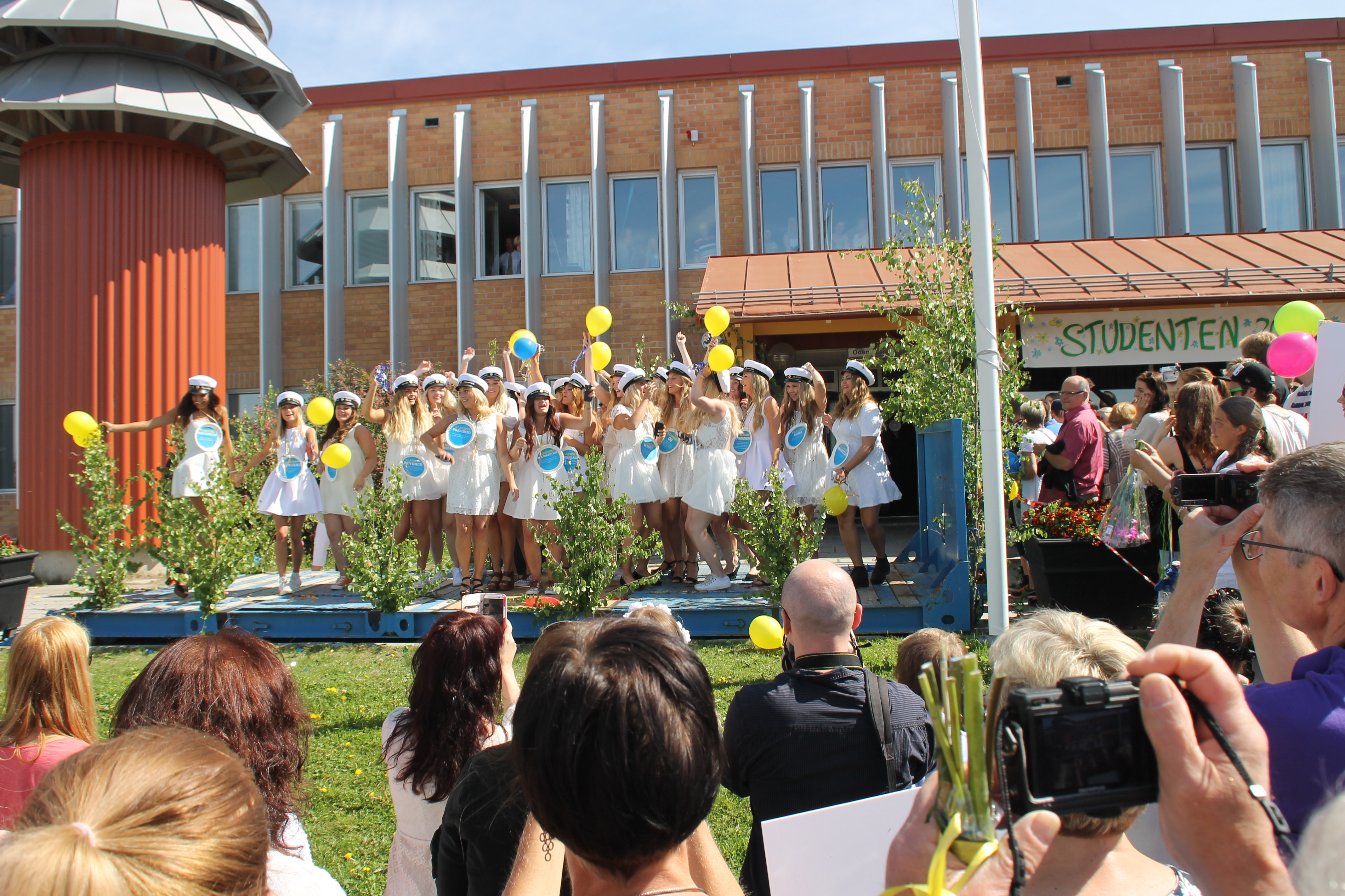 Swedish students celebrating getting their high school diplomas.